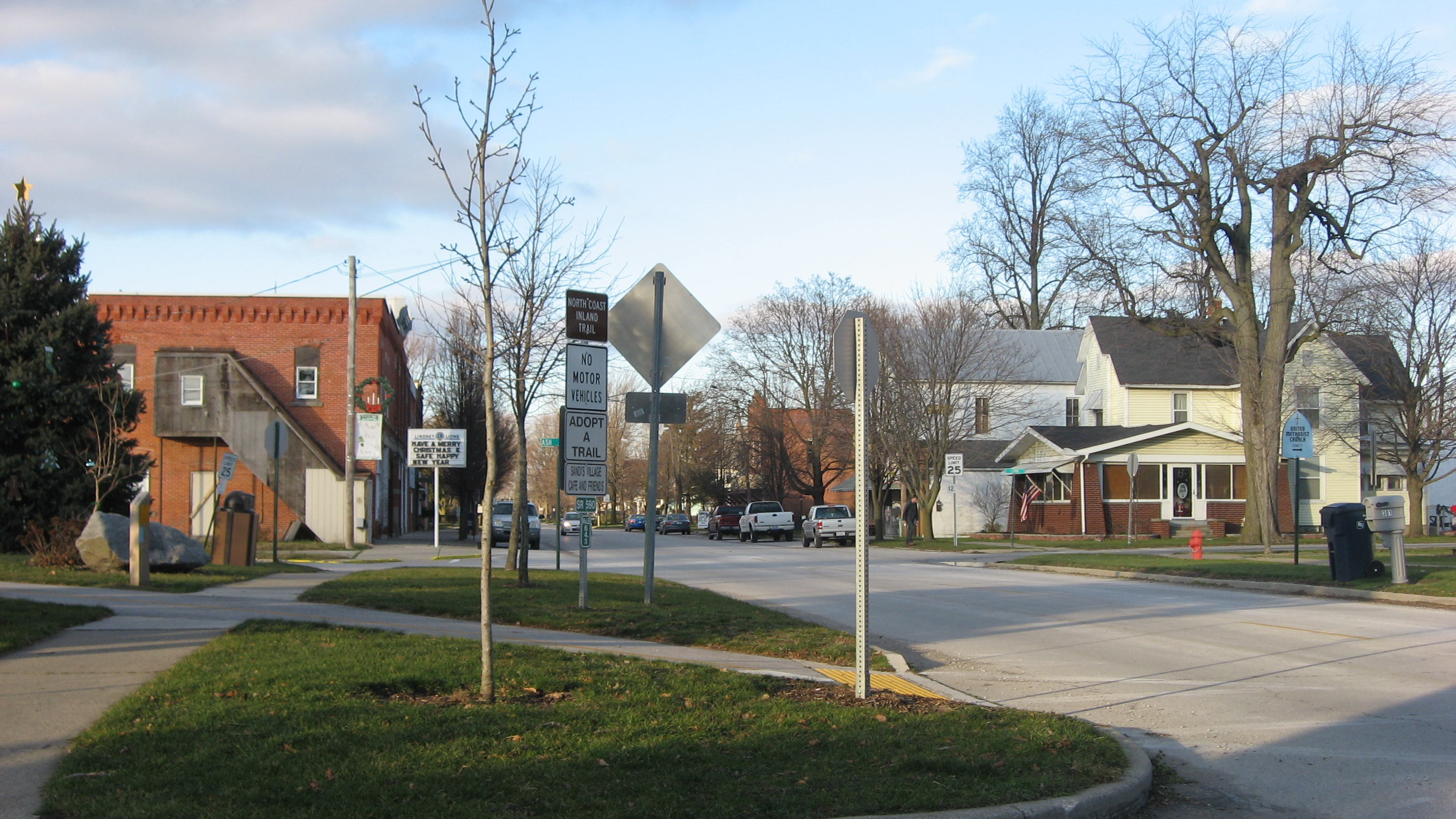 Buildings on South Main Street (State Route 590) in central Lindsey, Ohio, United States. Photo is taken looking northward from the Garfield Avenue intersection; note that the immediate foreground is a rail trail.